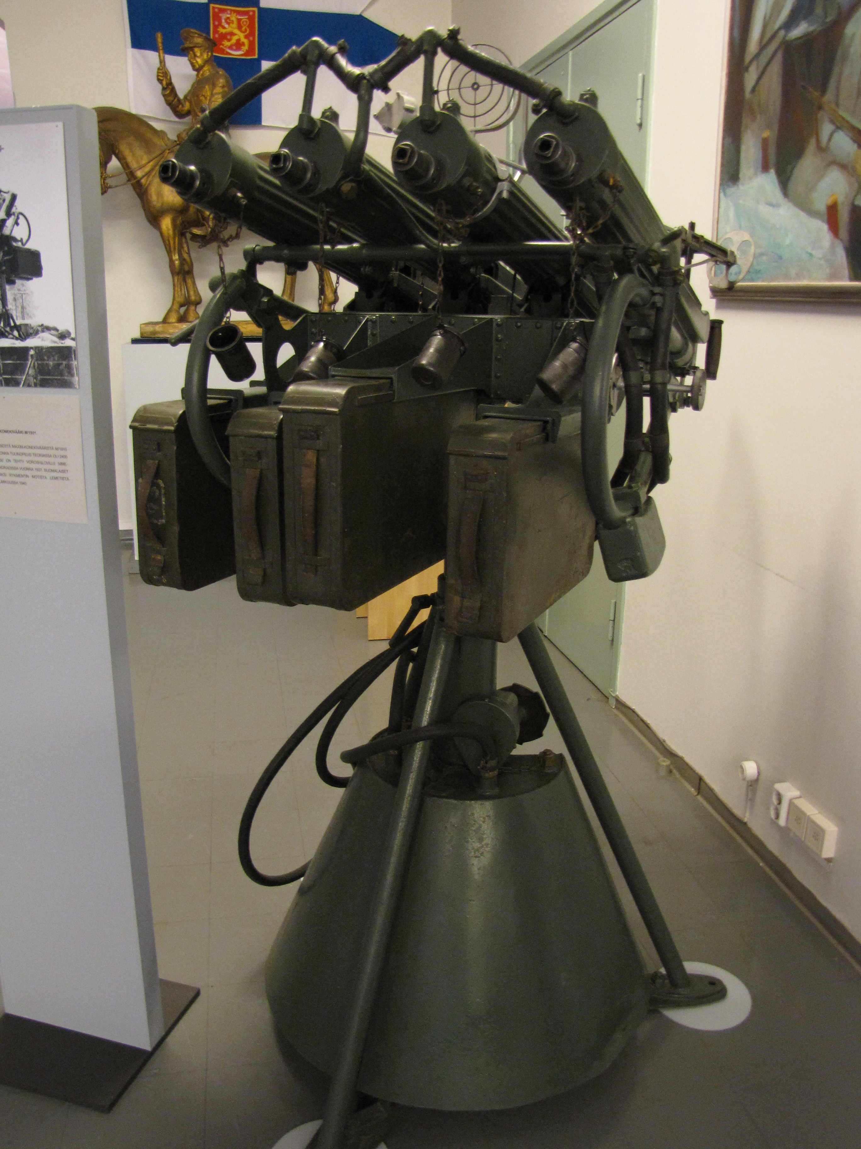 Soviet Union quad Maxim anti-aircraft machine gun. Captured by Finns and known as "organ machine gun". Photographed in the "Winter War - 70 years" exhibition in the Military Museum of Finland.